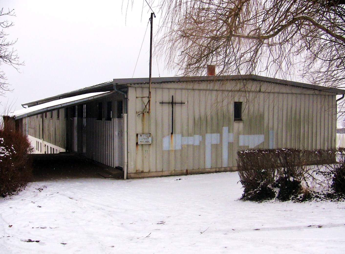 Saint-Michel church, located in Besançon (Doubs, France).